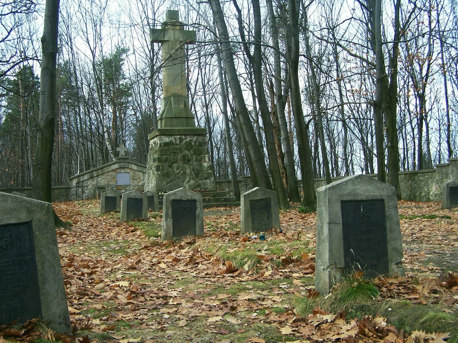 World War I Cemetery nr 303 - Rajbrot